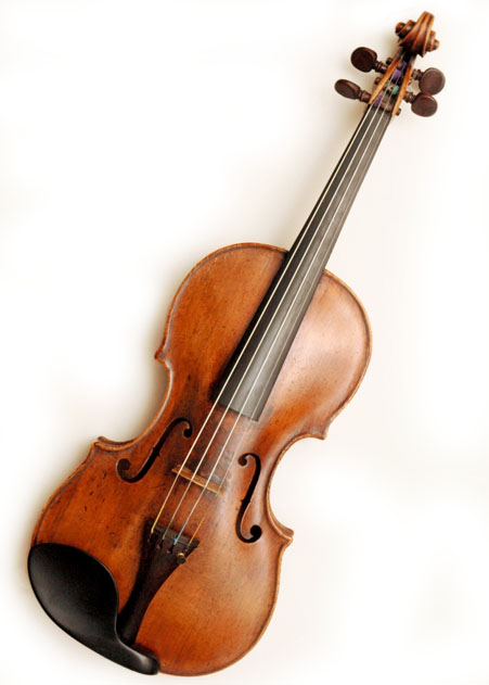 Violin after Jakobus Stainer 18th. century